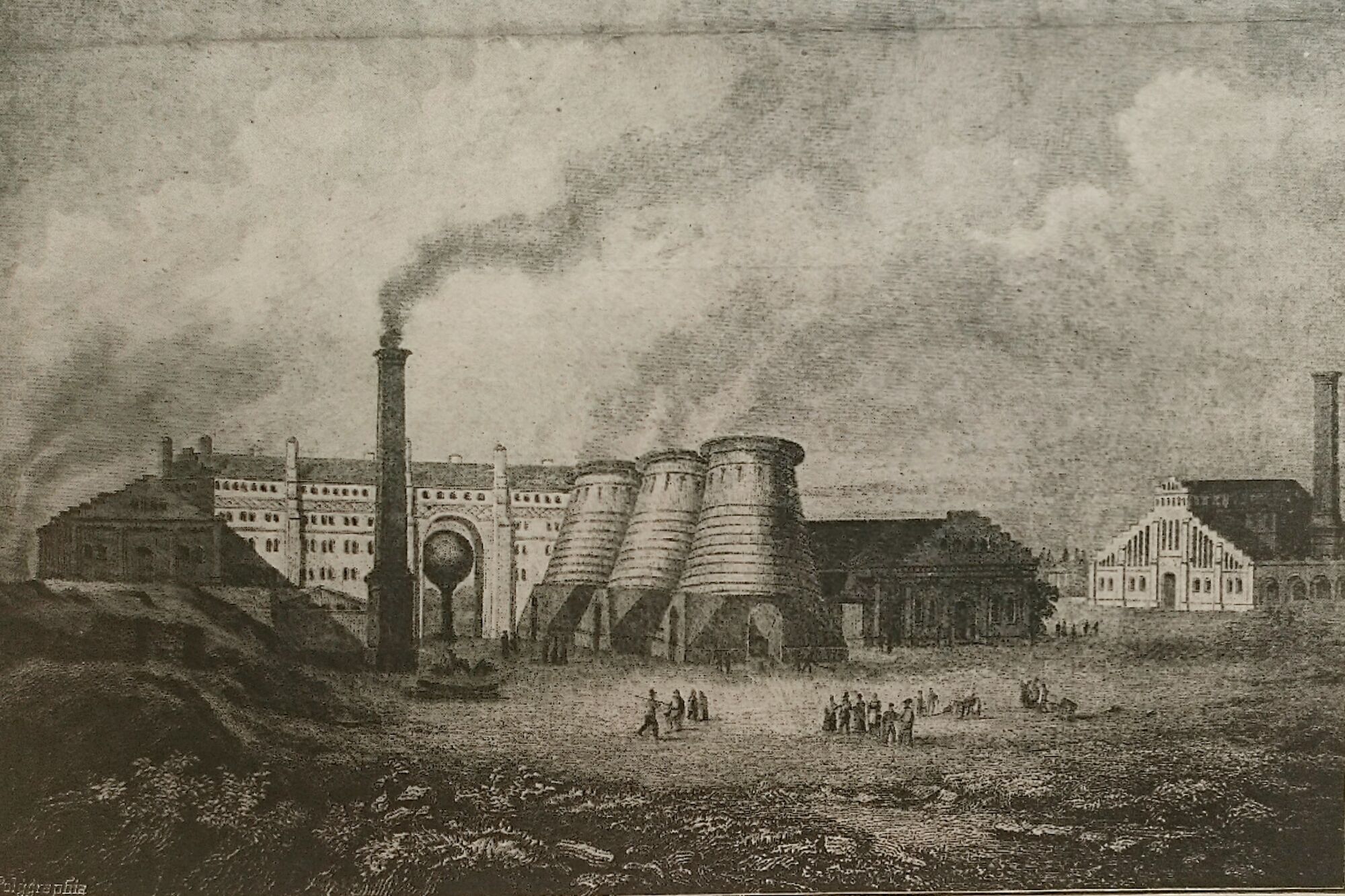 Royal metallurgical plant in Silesia (Königshütte). What were the big races metallurgical even a half-century ago.